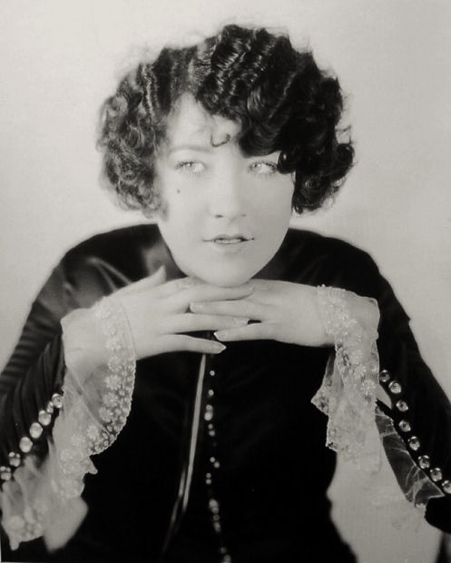 french-born actress Yola d'Avril - publicity still